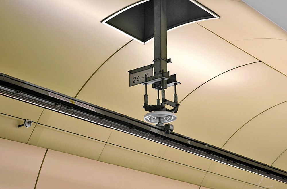 Overhead rail of Osaka Subway Nagahori Tsurumi-ryokuchi Line, Shinsaibashi Station.